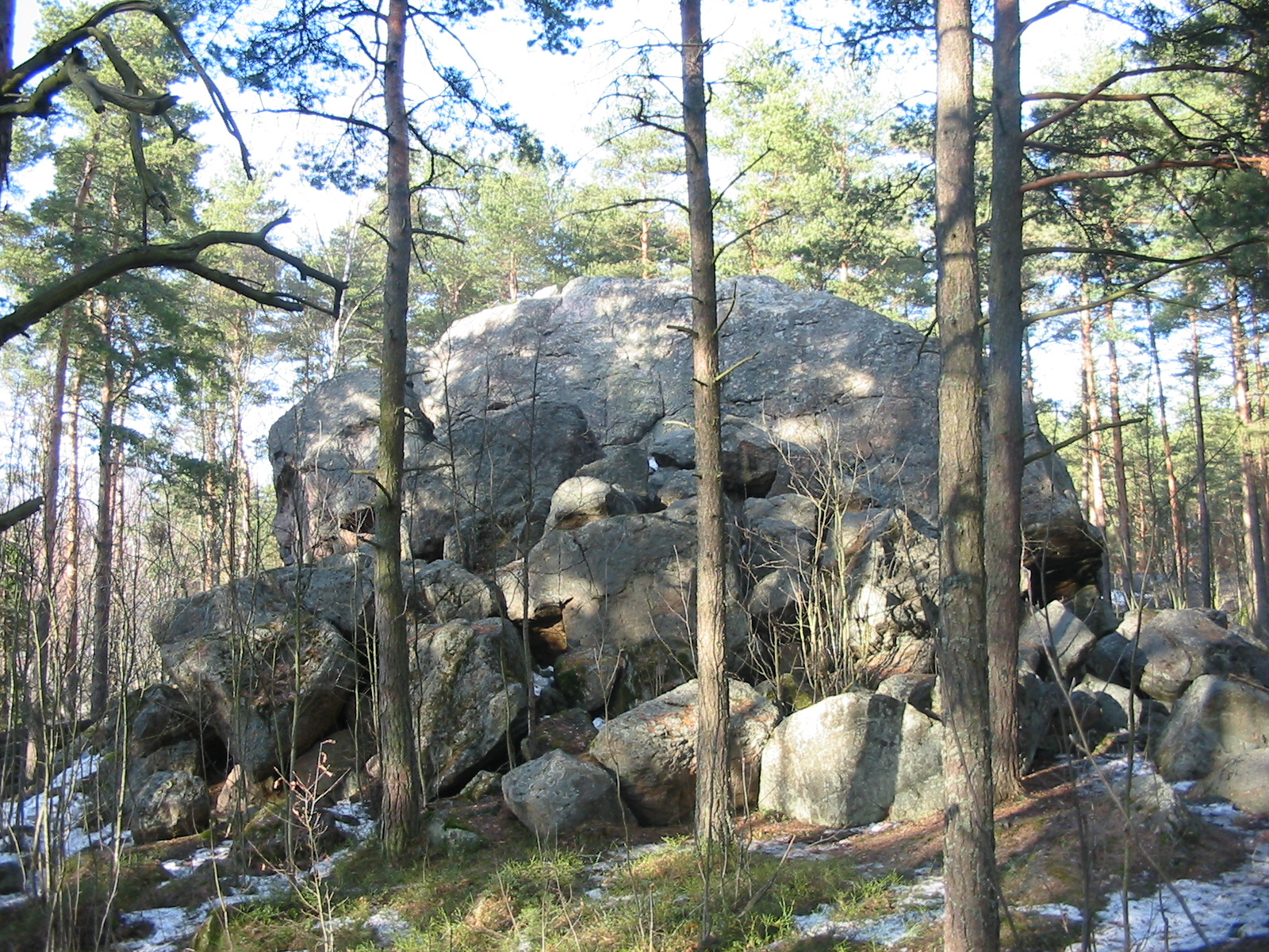 Pallivaha glacial erratic in Turku, Finland